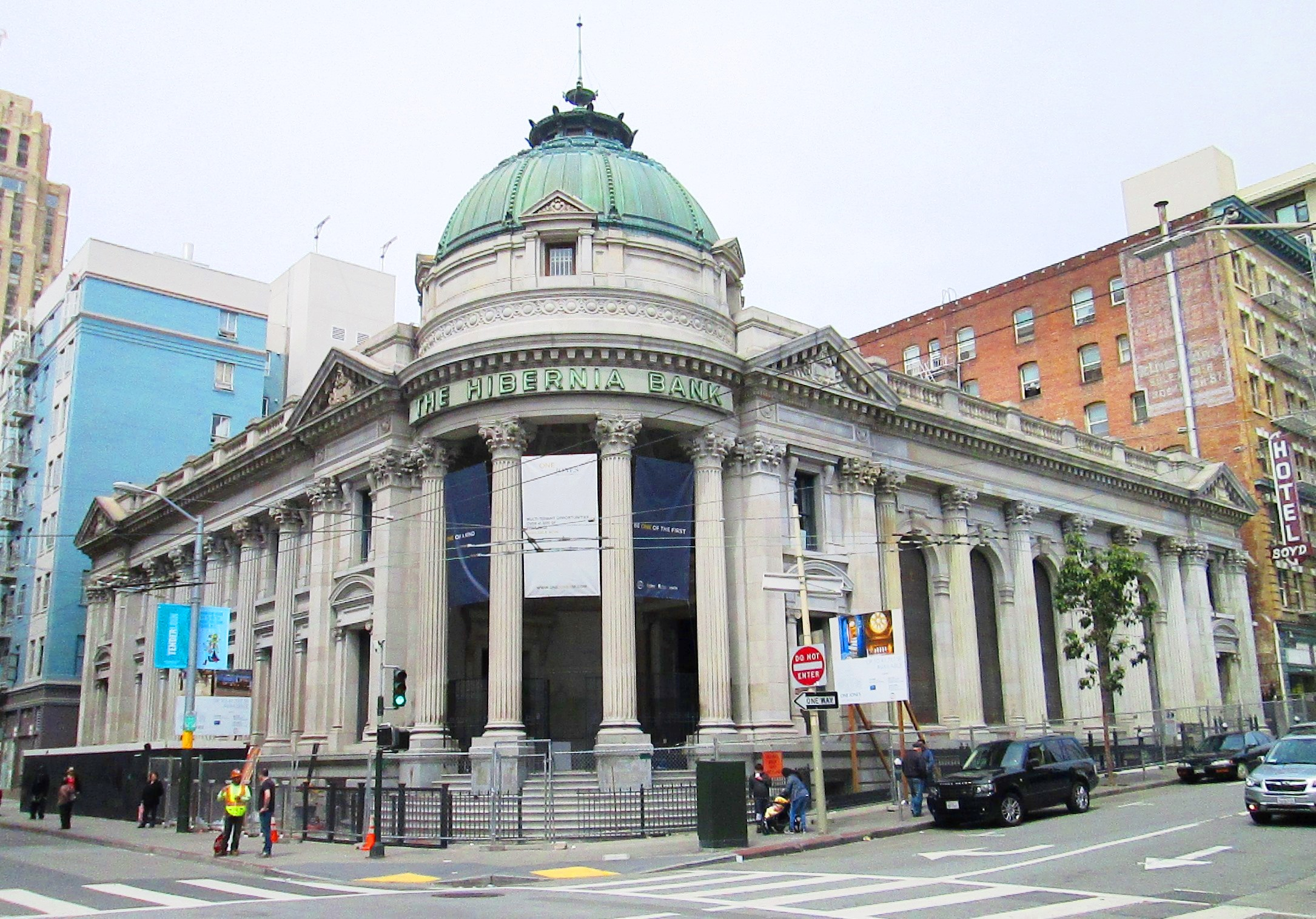 The Hibernia Bank, headquartered in San Francisco, California, was founded in April 1859 as the Hibernia Savings and Loan Society. In 1892, the company built a Beaux-Arts headquarters at 1 Jones Street at the corner of McAllister and Market Streets, designed by Albert Pissis. Slightly damaged in the 1906 earthquake and fire, it re-opened again just five weeks after the calamity; Pissis designed an addition to the building in 1908.The bank left the building in 1985, and, after a brief period in which it was used by the San Francisco Police Department, the building was vacant for decades, until it was restored and renovated in 2016. As of 2017, the building, re-branded as "One Jones", is being subdivided for leasing to tenants who need less than the building's overall 42,000 square feet (3,900 m2) of space.